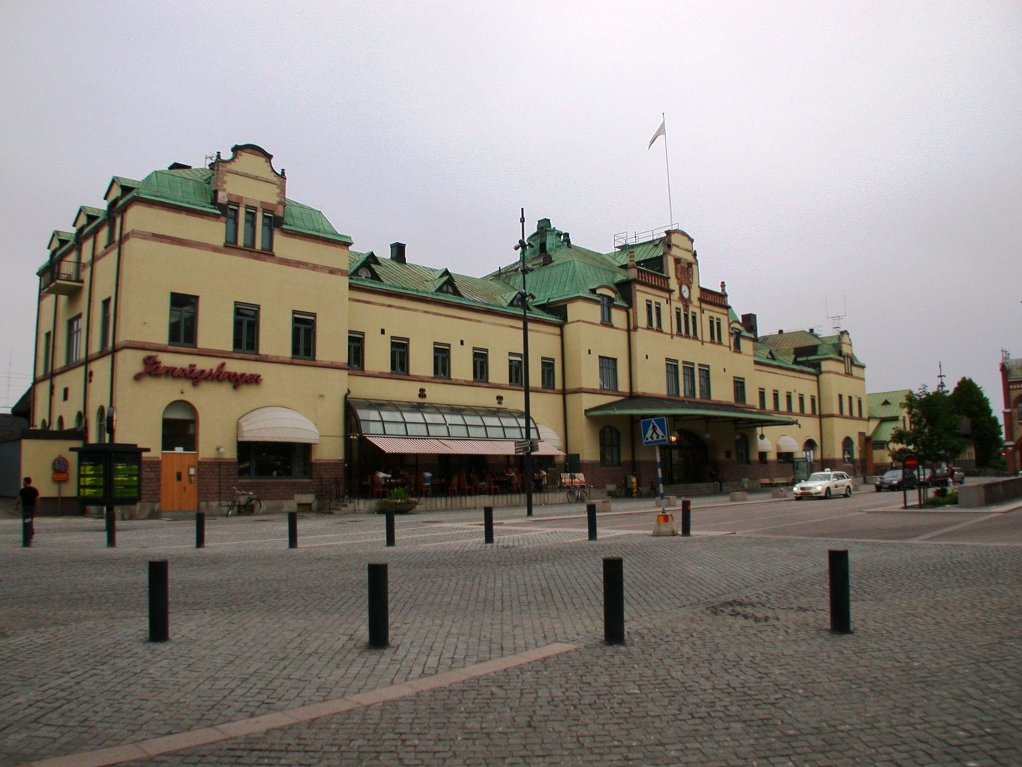 Gävle railway station, Sweden.